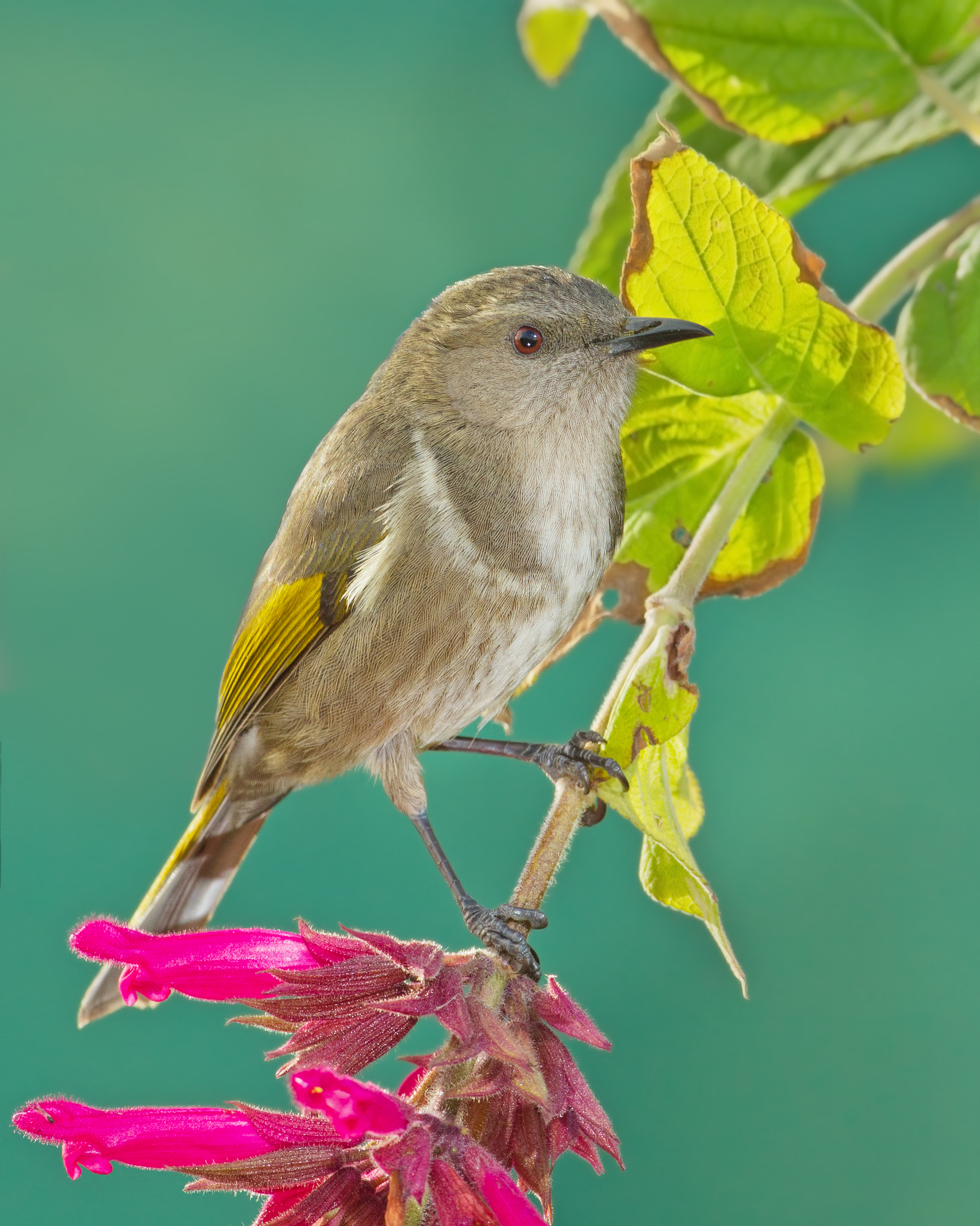 Crescent Honeyeater (Phylidonyris pyrrhopterus) female, Austin's Ferry, Tasmania, Australia